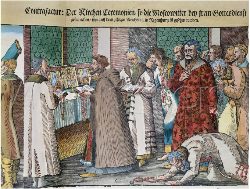 Русское посольство (гравюра 1576 года) The Great Embassy of Ivan IV (1530-84) of Russia to the Holy Roman Emperor at Regensburg in 1576 (coloured woodcut) (detail) Bibliotheque des Arts Decoratifs, Paris, France